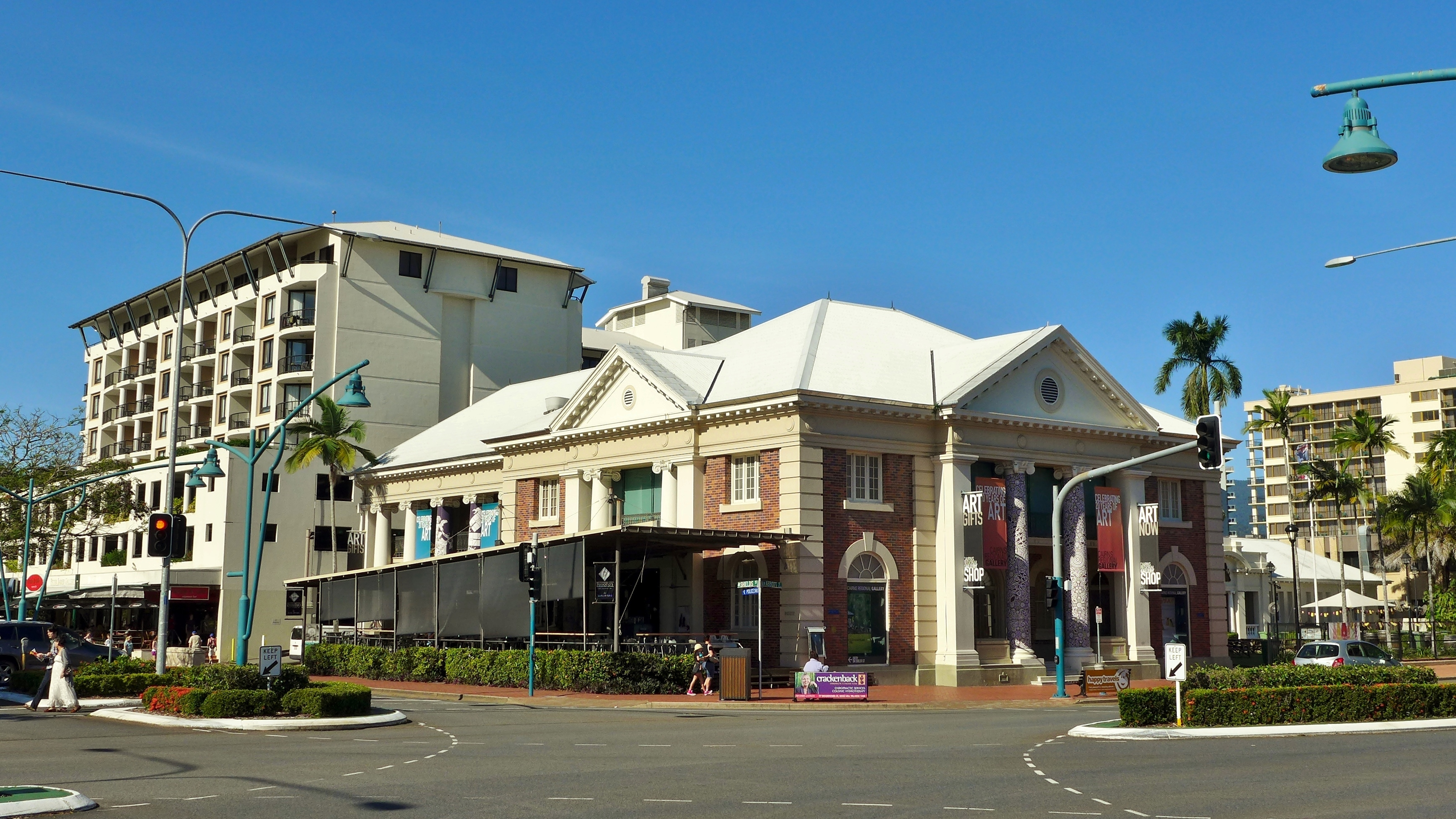 View of Shields Street, Cairns, Far North Queensland, Australia. In the foreground is the Cairns Regional Gallery.